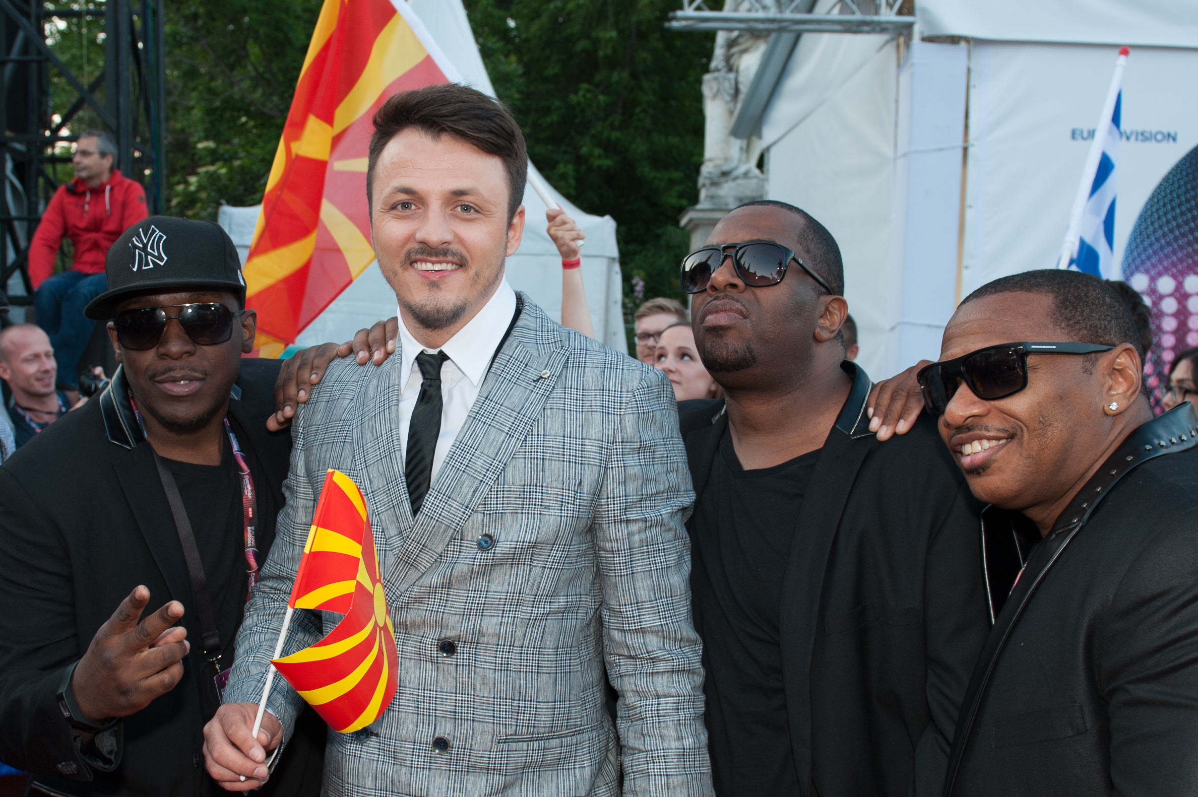 Eurovision Song Contest Vienna 2015: Daniel Kajmakoski